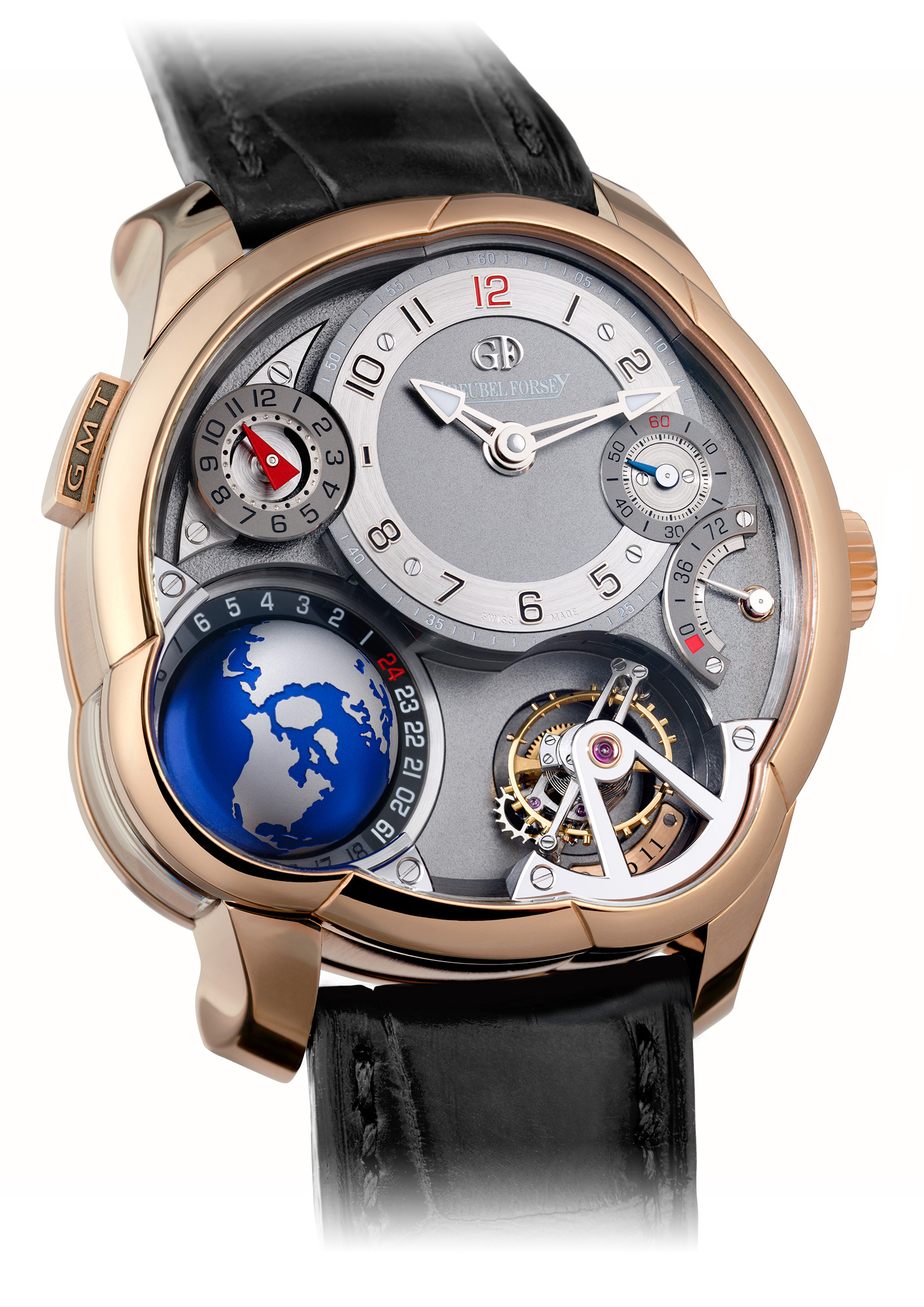 The Greubel Forsey GMT features a second time zone indication complemented by a three-dimensional globe that provides an intuitive picture of time all over the world. A 25° inclined Tourbillon 24 Secondes regulates the timing. On the back of the GMT, a worldtime disc with cities in each of the 24 time zones facilitates the setting of the globe and provides an alternative view of universal time.